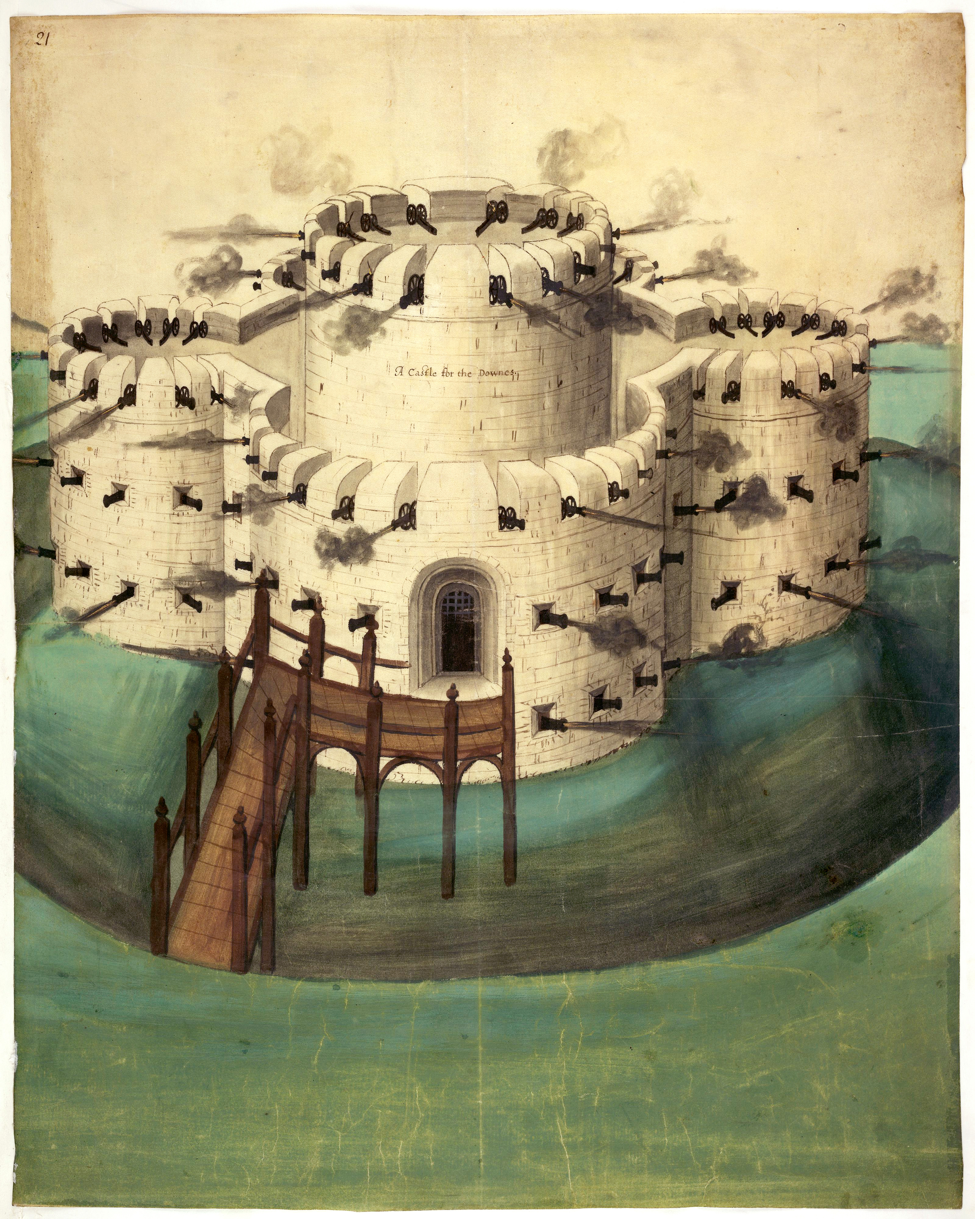 A Colored bird's Eye View of "A Castle for the Downes;" Probably an Early Design for Walmer and Sundown Castles. 1539 draft of the future castle(s) in Kent, presented to Henry VIII for approval